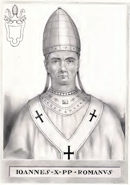 This illustration is from The Lives and Times of the Popes by Chevalier Artaud de Montor, New York: The Catholic Publication Society of America, 1911. It was originally published in 1842.